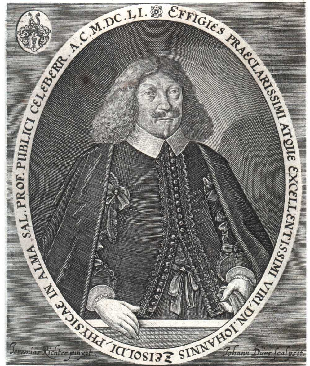 Engraving of Johann Zeisold by Johann Dürr.